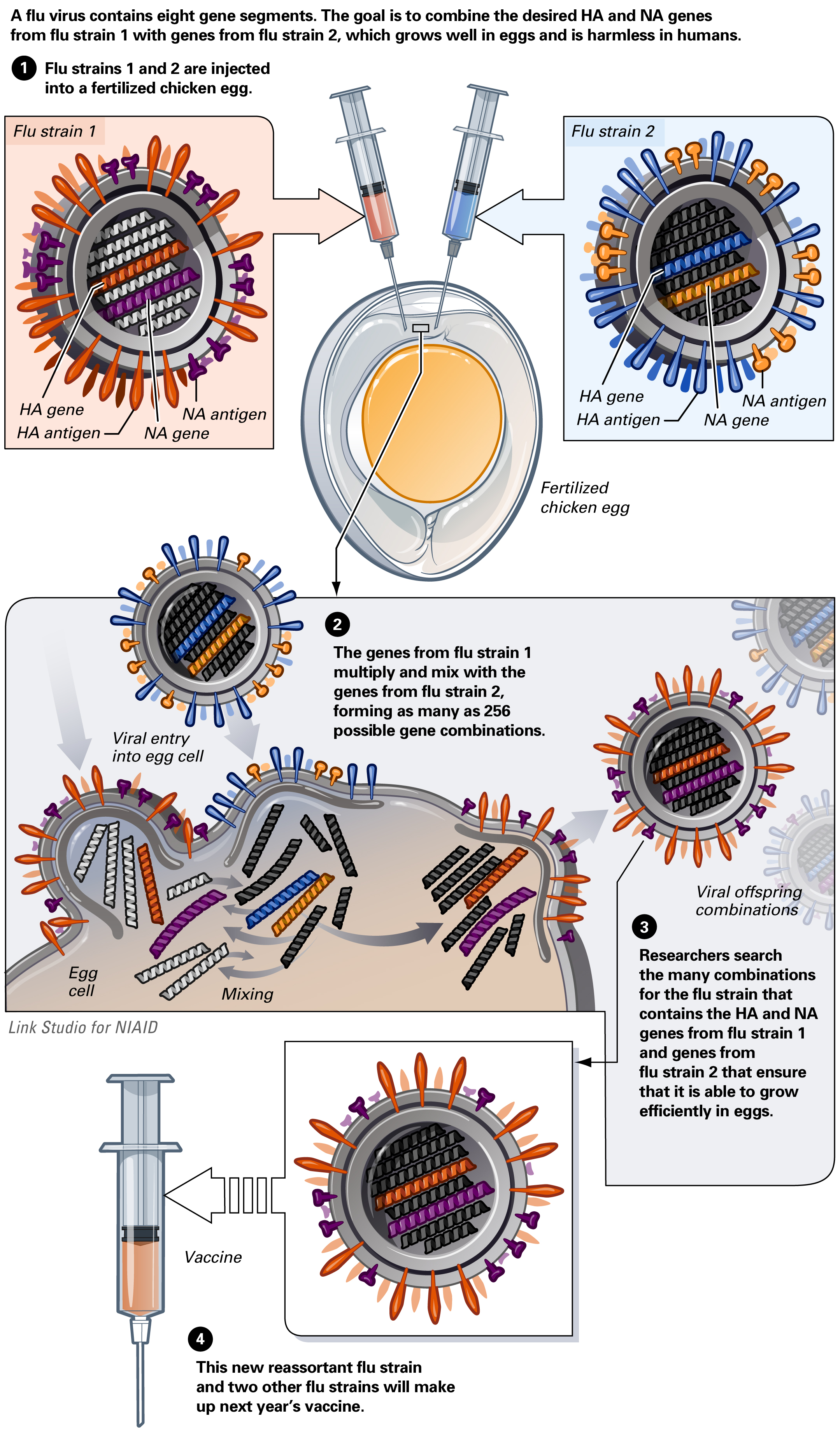 Diagram of genetic reassortment in the production of